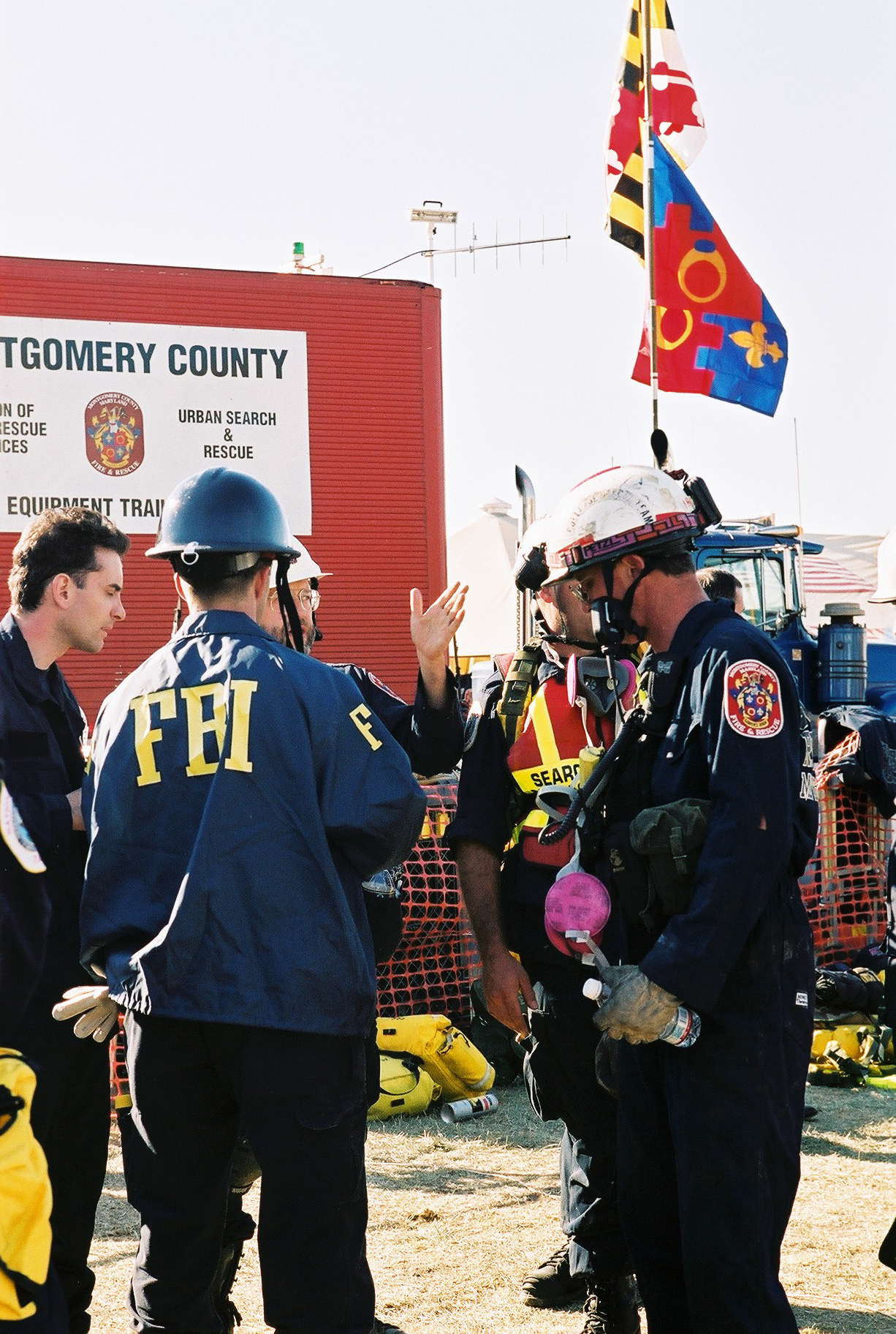 Arlington, VA, September 12, 2001 -- FEMA Urban Search and Rescue (US&R) team members from nearby Montgomery County, Maryland, coordinate with members of the FBI before entering the crash site at the Pentagon. Photo by Jocelyn Augustino/ FEMA News Photo